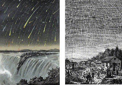 Artistic representation of Leonid meteor storms of 1833 (right) and 1866 (left). Two of the most impressive meteor storms on the last centuries.